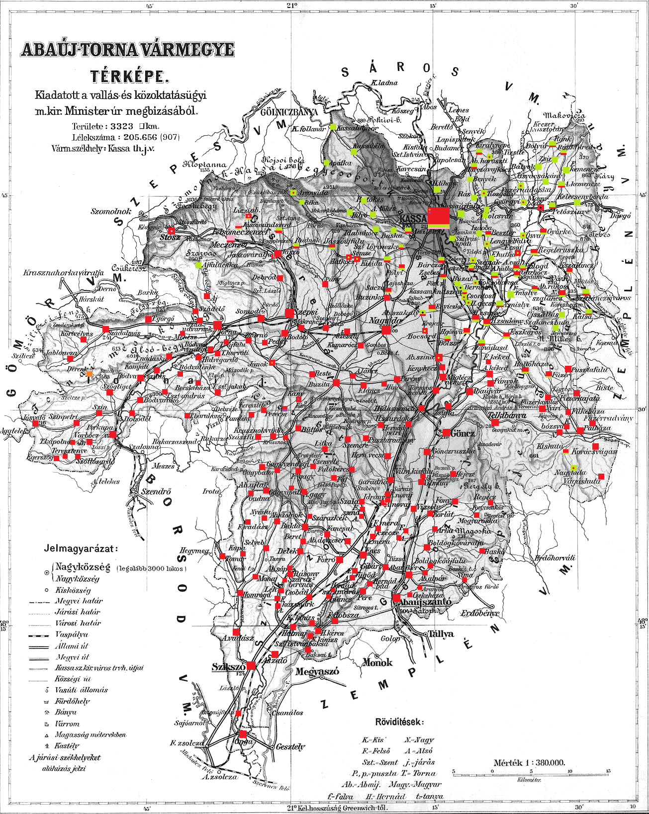 Ethnic map of the county (with data of the 1910 census). Key: red - Hungarians; light green - Slovaks; pink - Germans; black - Roma; orange - Polish; violet - Ruthenians. Coloured dots in plain rectangles imply the presence of smaller minority populations (generally more than 100 people or 10%). Multicoloured rectangles imply cities and villages with multi-ethnic populations with the order of the stripes following the ethnic composition of the settlement. (One obvious mistake in the census data was corrected in case of the village of Derenk which was Polish rather than Hungarian.)